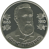 reverse of the commemorative coin Boris Grinchenko